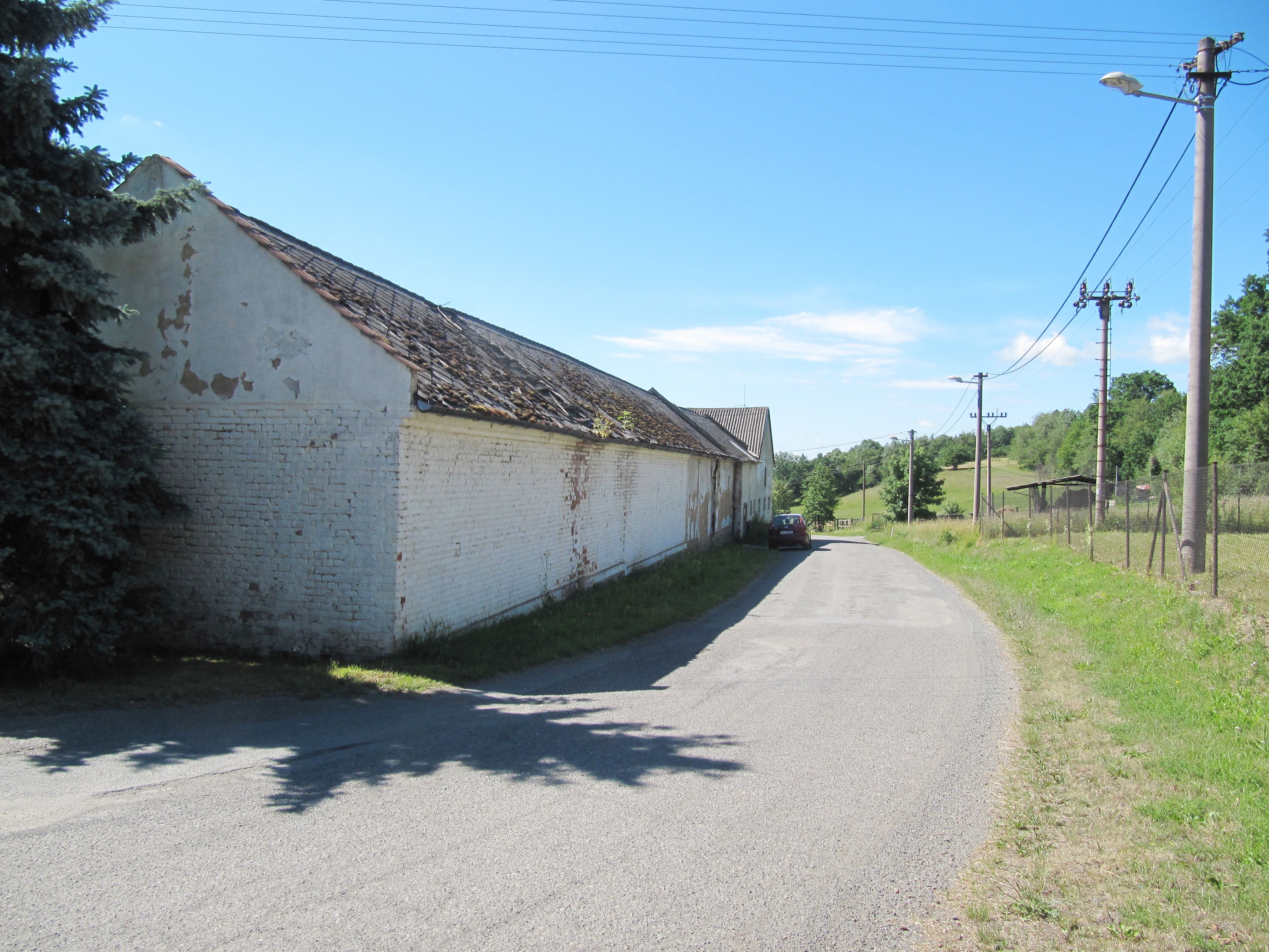 Fulnek, Nový Jičín District, Czech Republic, part Jílovec.